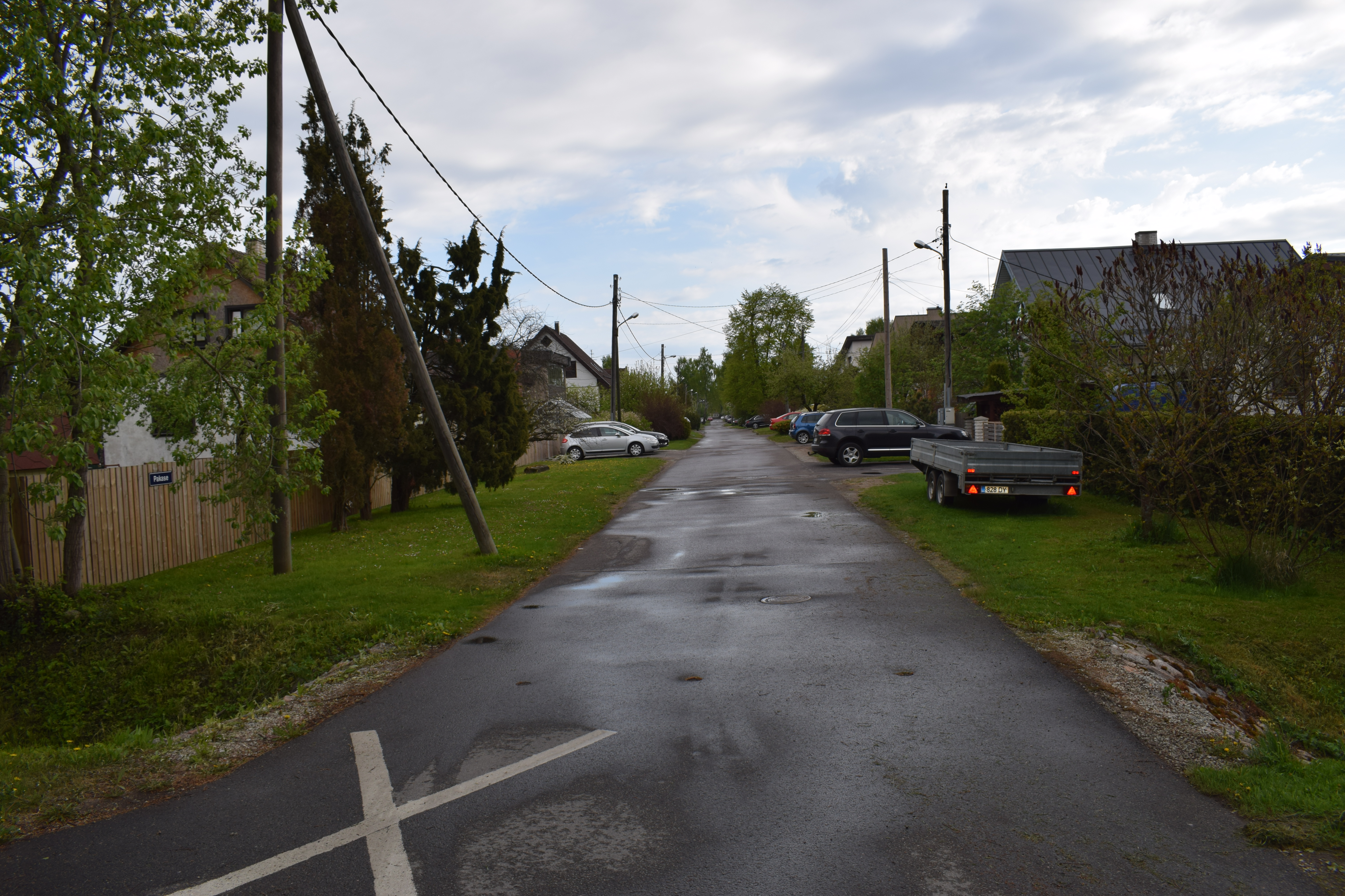 Pakase street